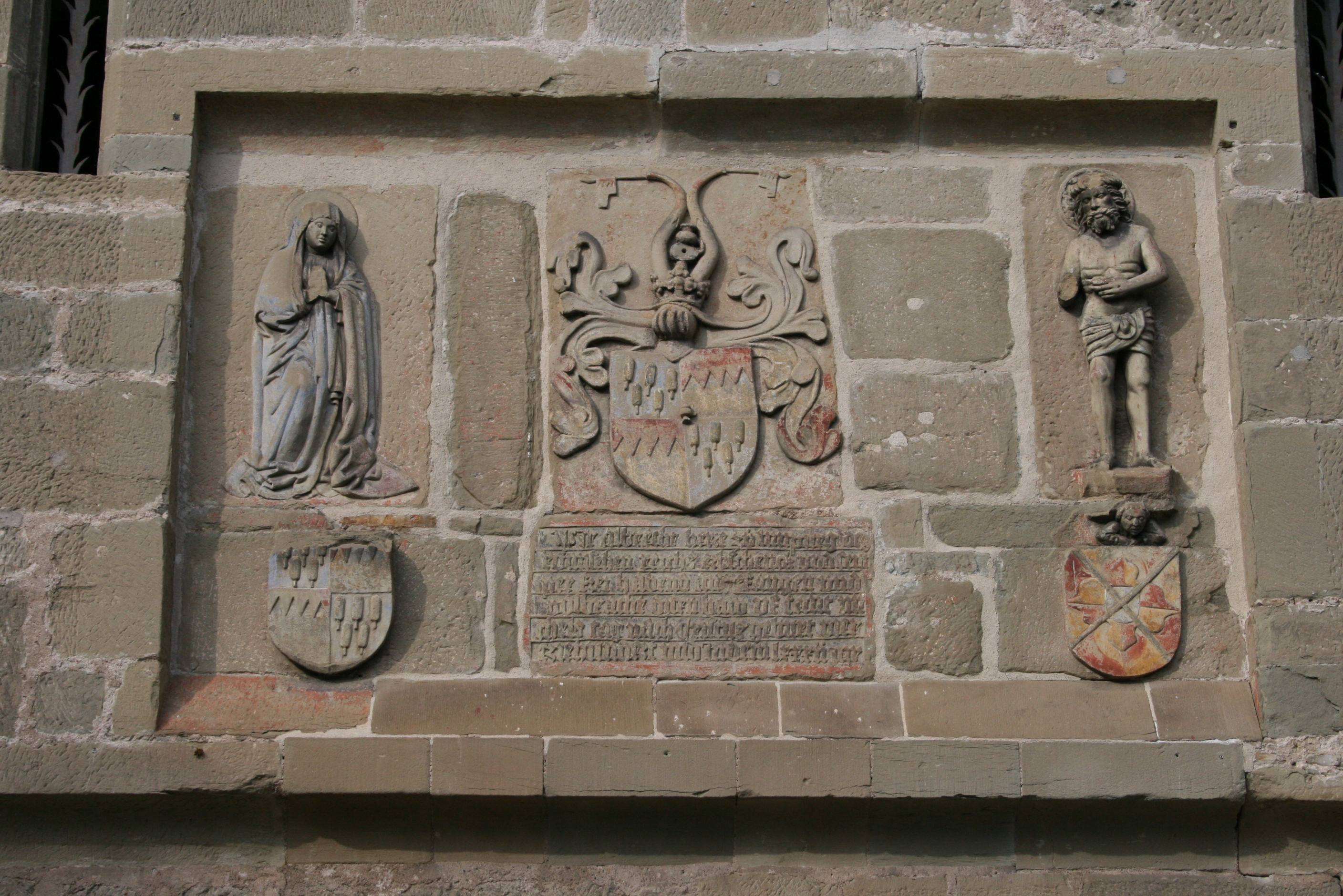 Gaildorf, Old Castle